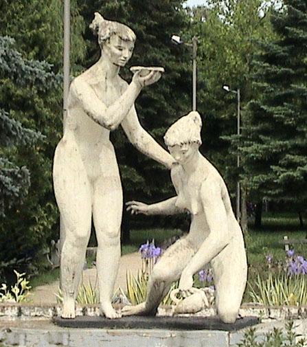 Statue – Gyula Kiss Kovács: Bathing. Miskolc, Hungary